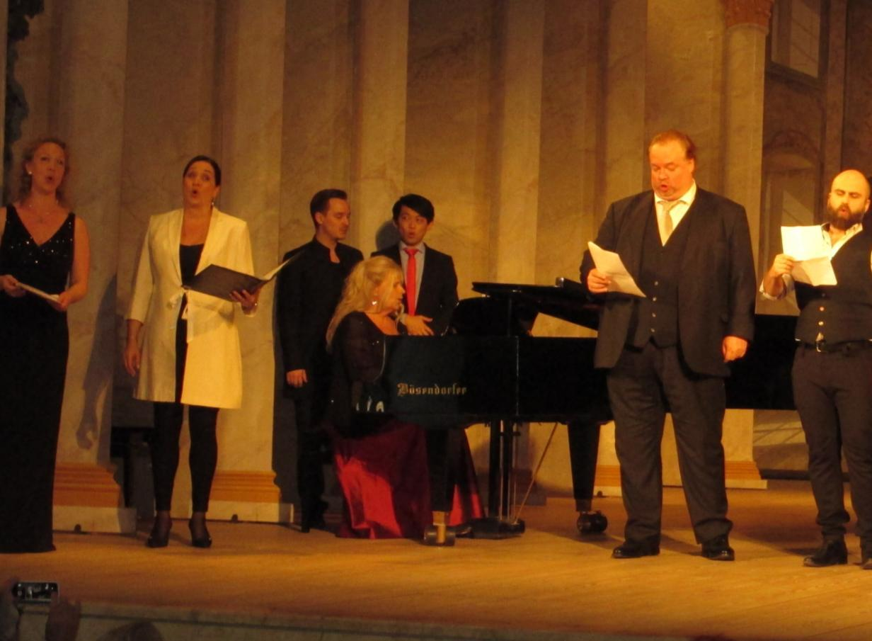 Concert cast (l-r: Paulina Pfeiffer Katarina Karnéus, Henrik Måwe, Majsan Dahling, David Huang, Marcus Jupither & Kosma Ranauer) pays tribute to Kjerstin Dellert at the 40th aniversary celebration of her theaterPlace: Ulriksdal Palace Theater, Solna, Sweden